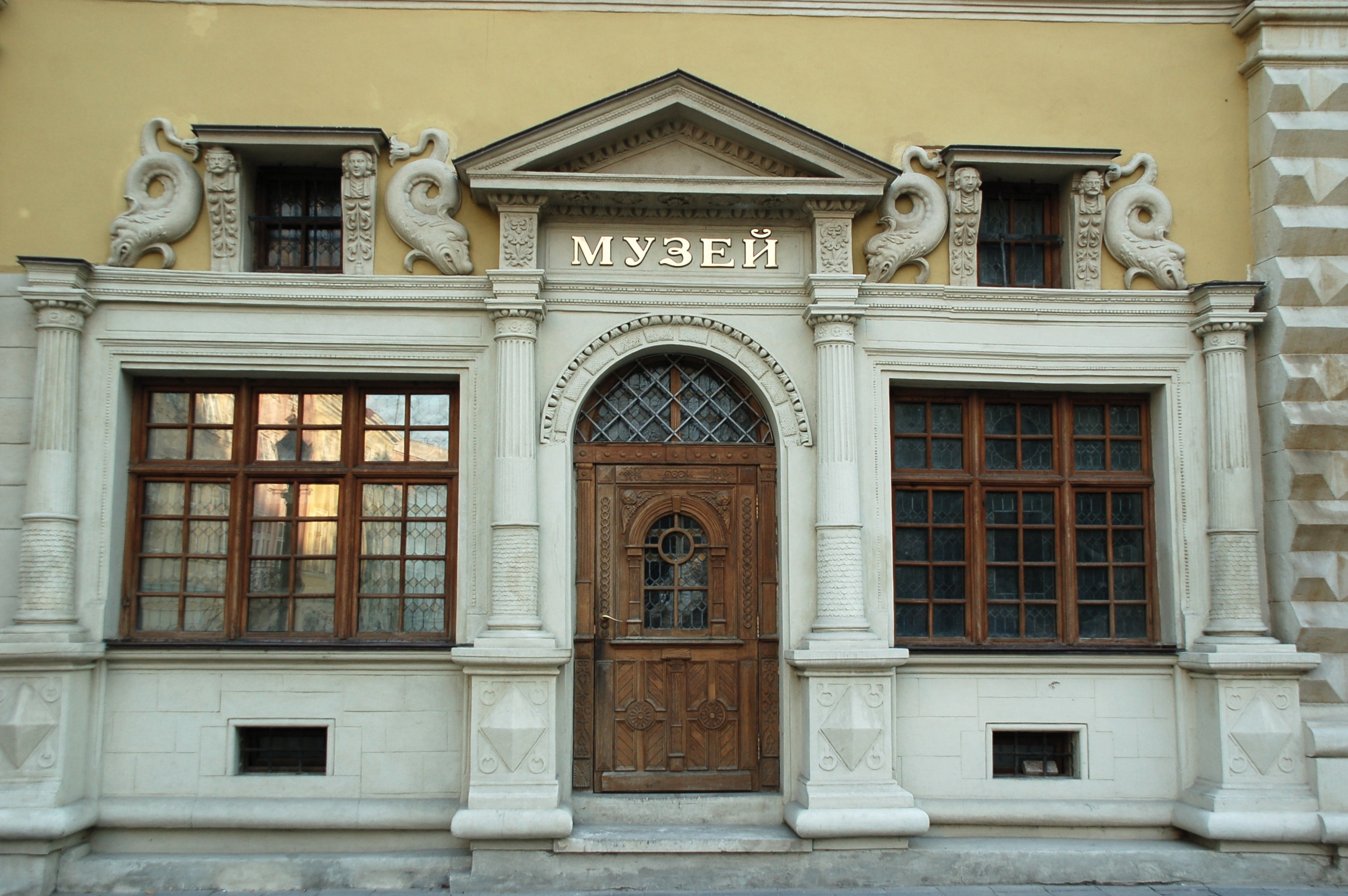 Main entrance to a museum in the center of Lviv